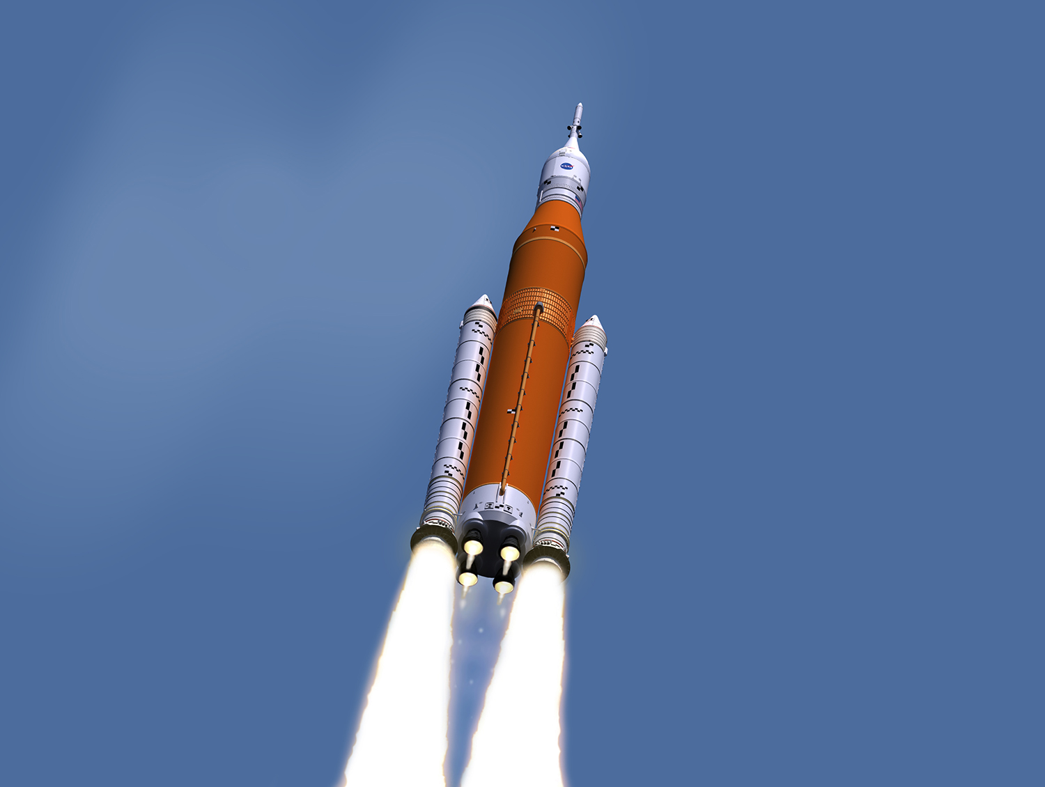 Artist concept of the Block 1 SLS configuration in flight. The SLS is an advanced, heavy-lift rocket that will provide an entirely new capability for science and human exploration beyond Earth’s orbit. The first SLS mission -- Exploration Mission 1 -- in 2020 will launch an uncrewed Orion spacecraft to demonstrate the inte­grated system performance of the SLS rocket and spacecraft prior to a crewed flight. Black-and-white checkerboard targets on the exterior of the Space Launch System heavy-lift rocket will enable photogrammetrists to measure critical distances during spaceflight, including booster separation from the core stage.